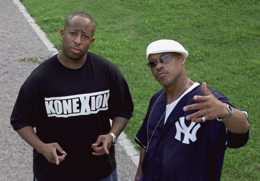 Germany 2003